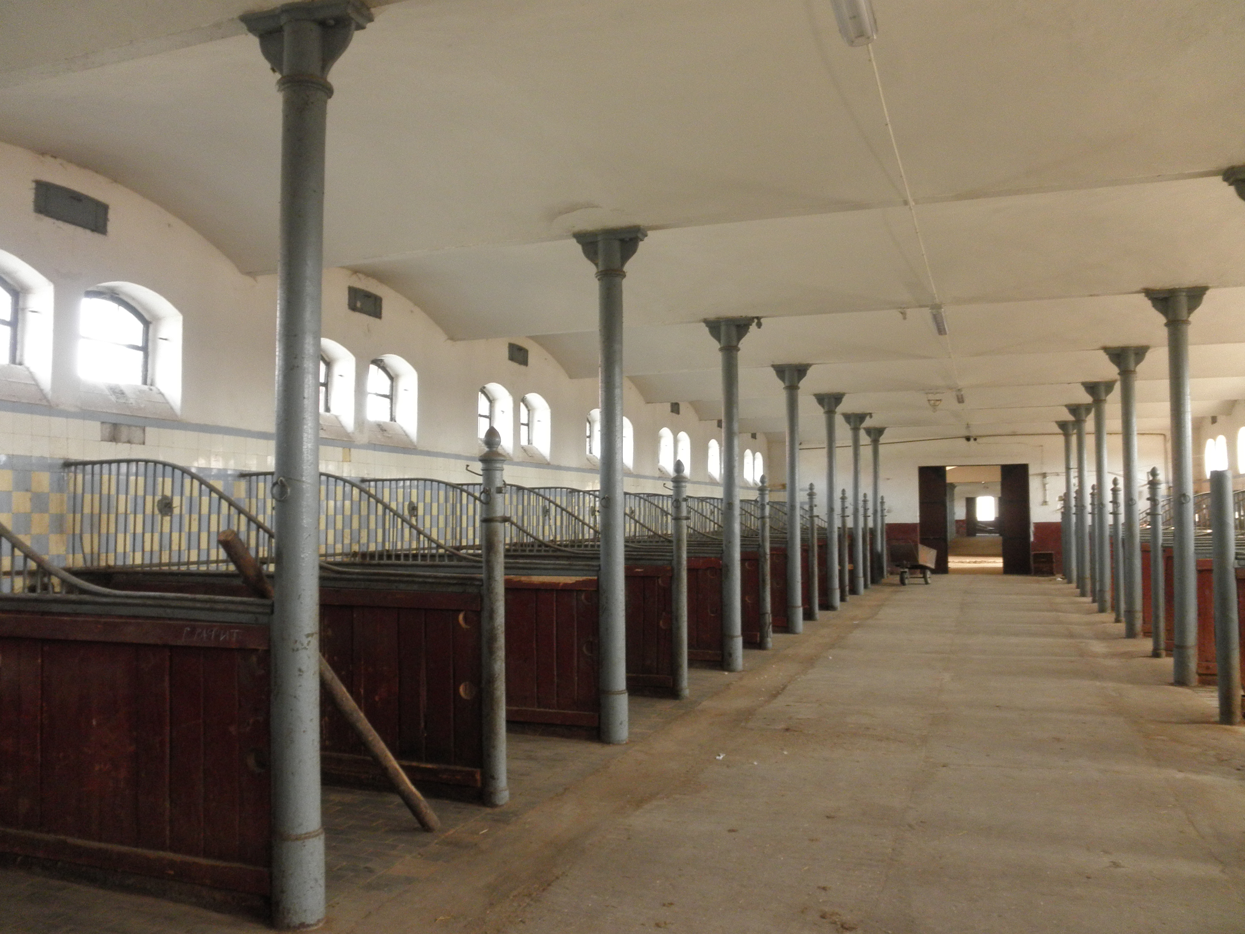 Horses stable in Georgenburg Majowka in Kaliningrad Oblast